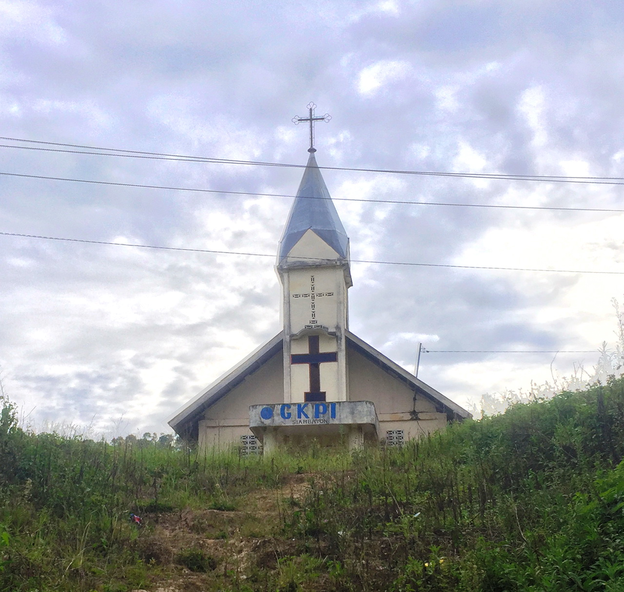 GKPI Siambaton, Res. Pardomuan, Church in Parik Sabungan, Dolok Pardamean, Simalungun